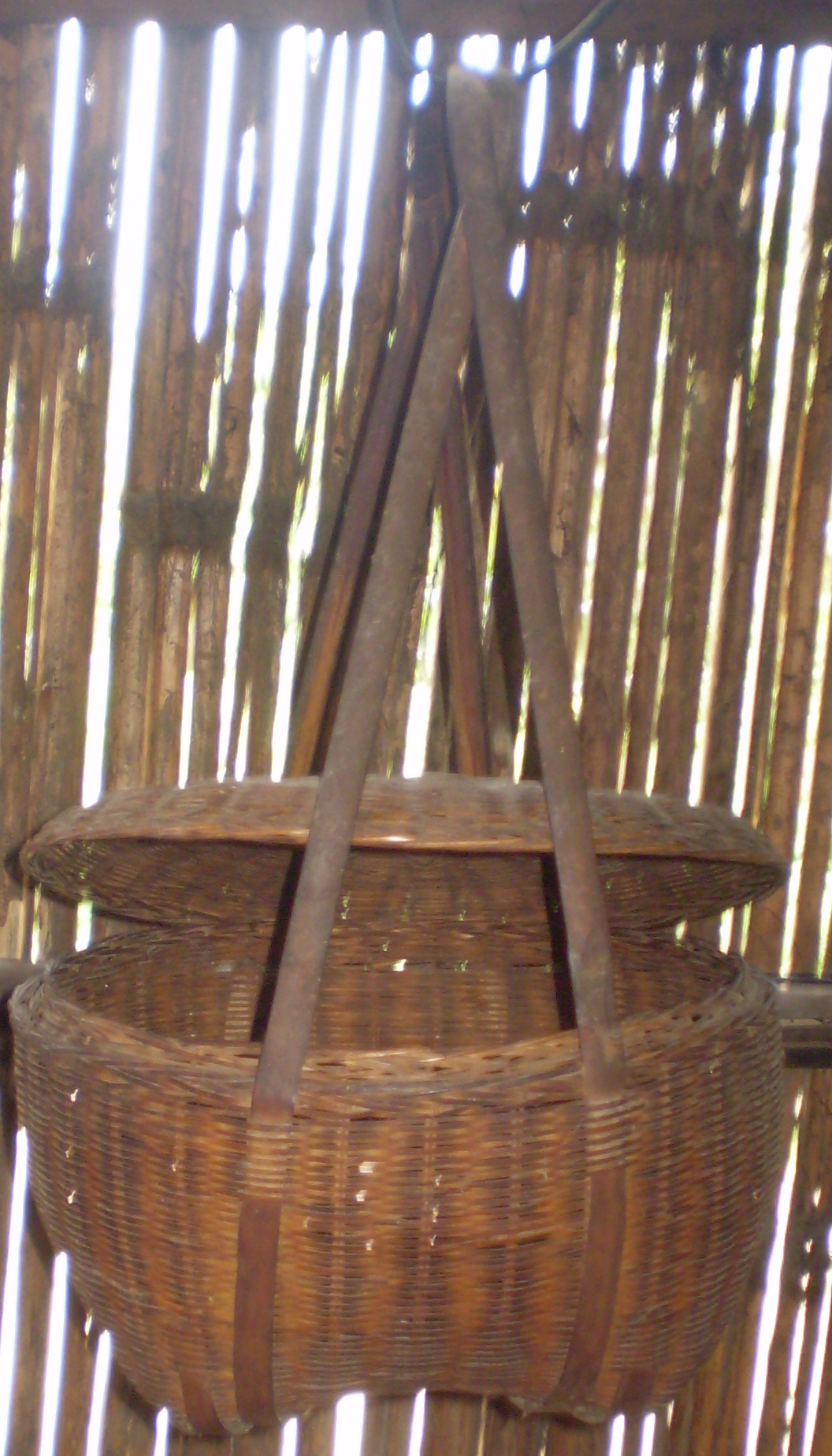 Hand basket of the Nung people